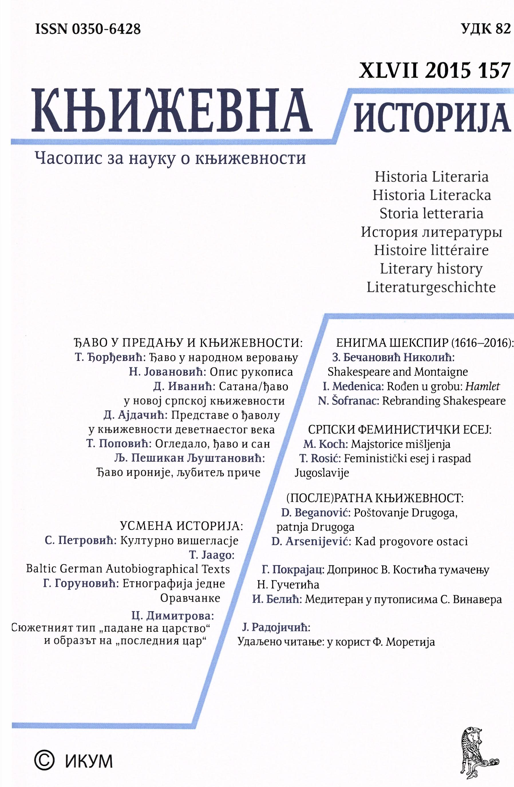 Front page of journal, year 2015.